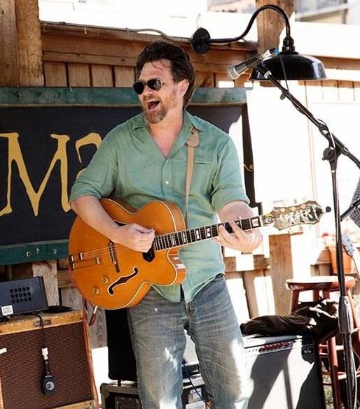 Tom Maxwell playing South by Southwest 2014